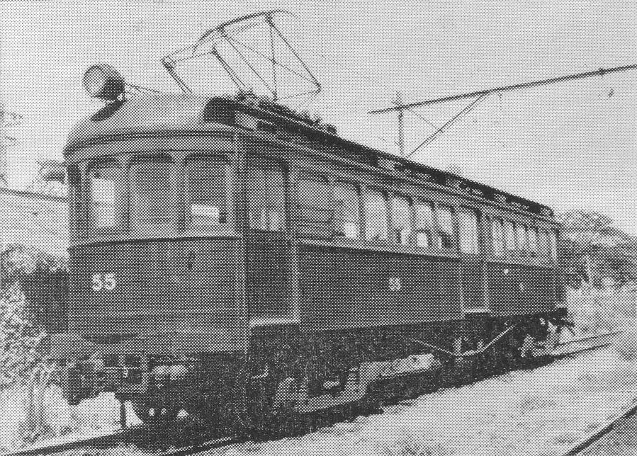 Hankyu 55.